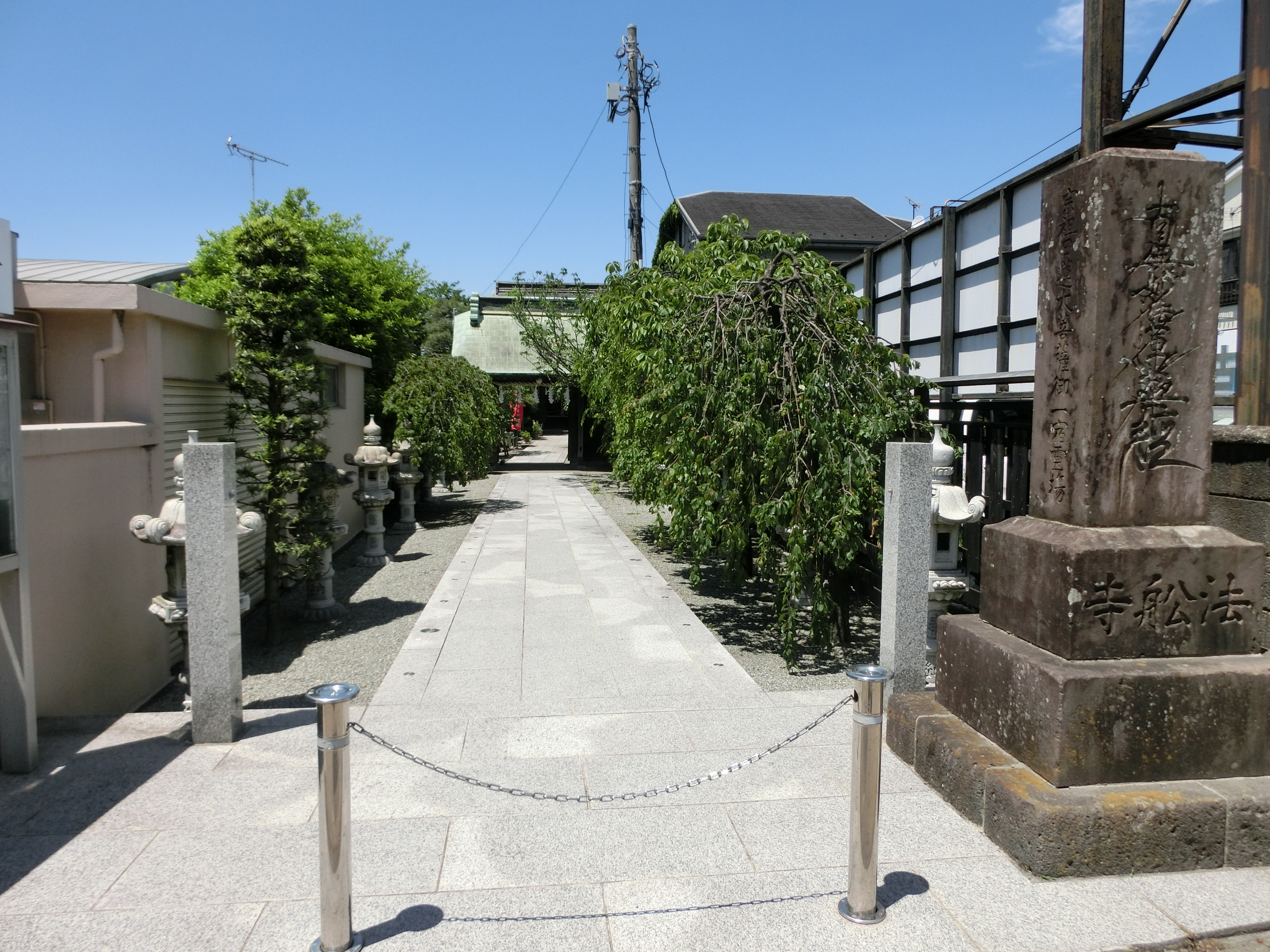 Hosen-ji (Odawara)